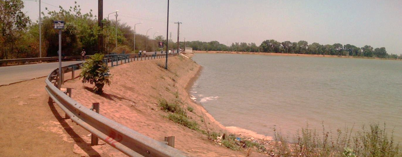 barrage in ouagadougou, burkina faso